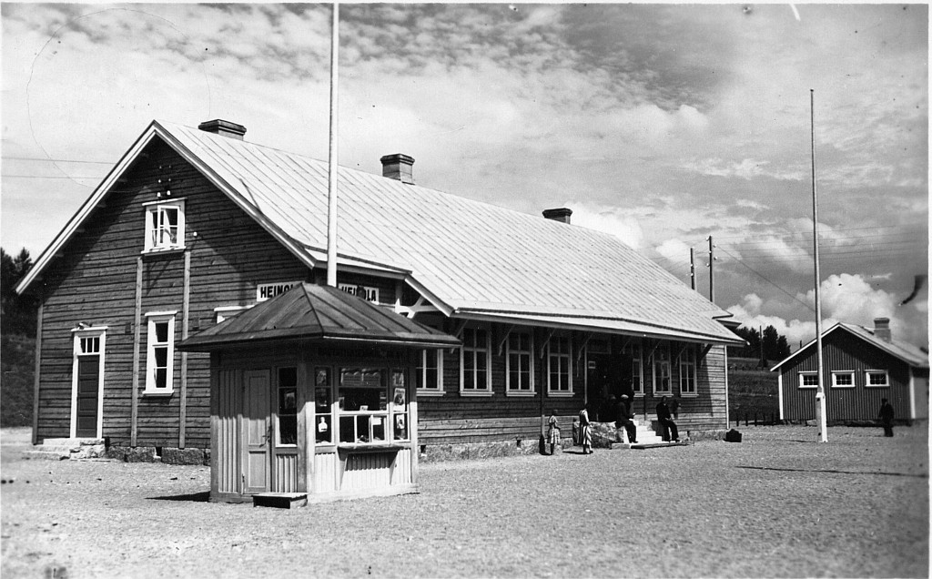 Heinola train station in Finland. Photograph taken in 1932.